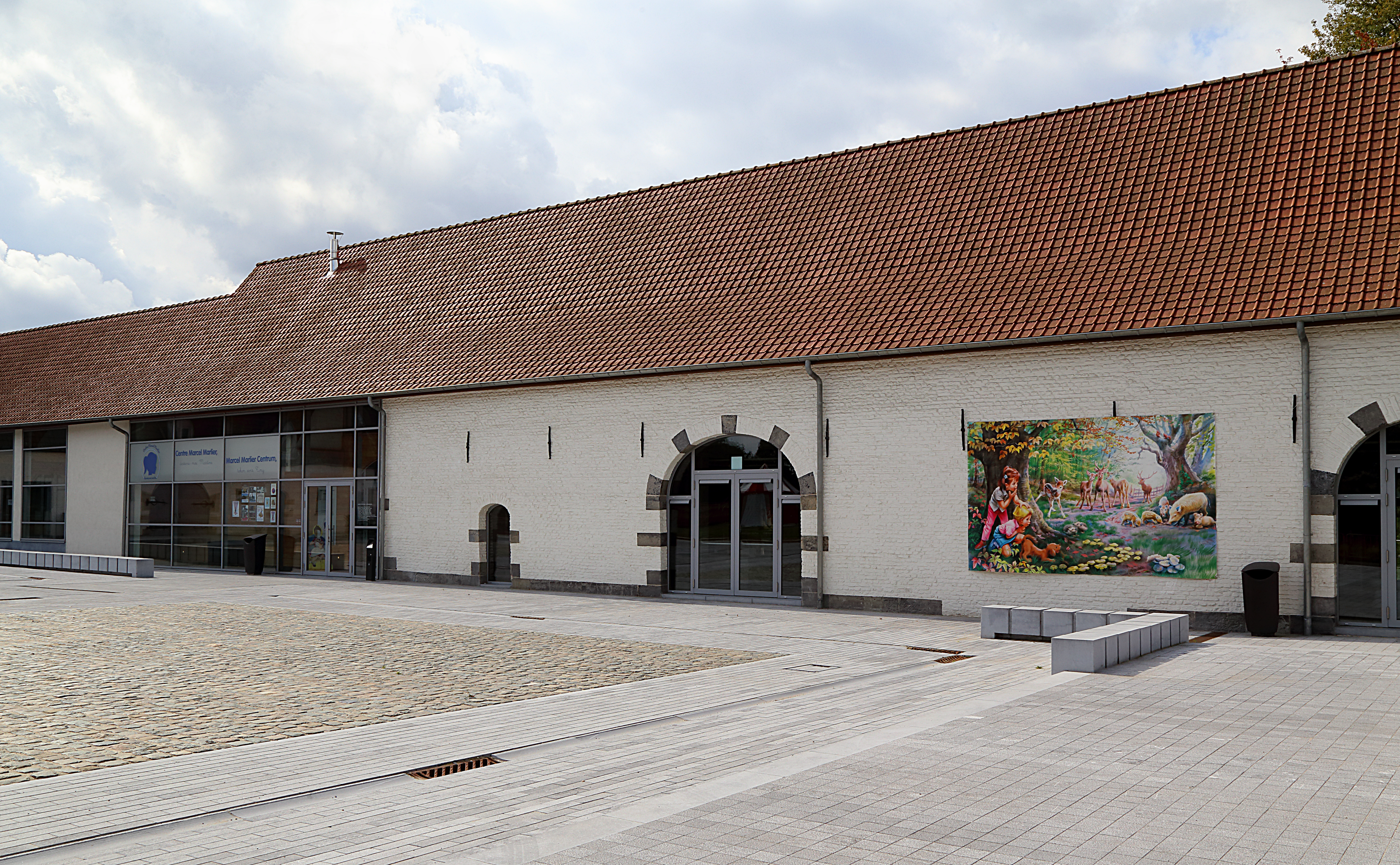 The Marcel Marlier Centre, dessine-moi Martine (draw me Debbie) in Mouscron, Belgium.